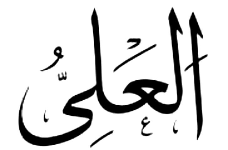 Al-'Aliy / The Sublime I a name of God in Islam, is a name of Allah.